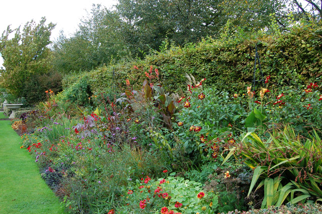 Flower bed in Avenue Gardens, Regents Park